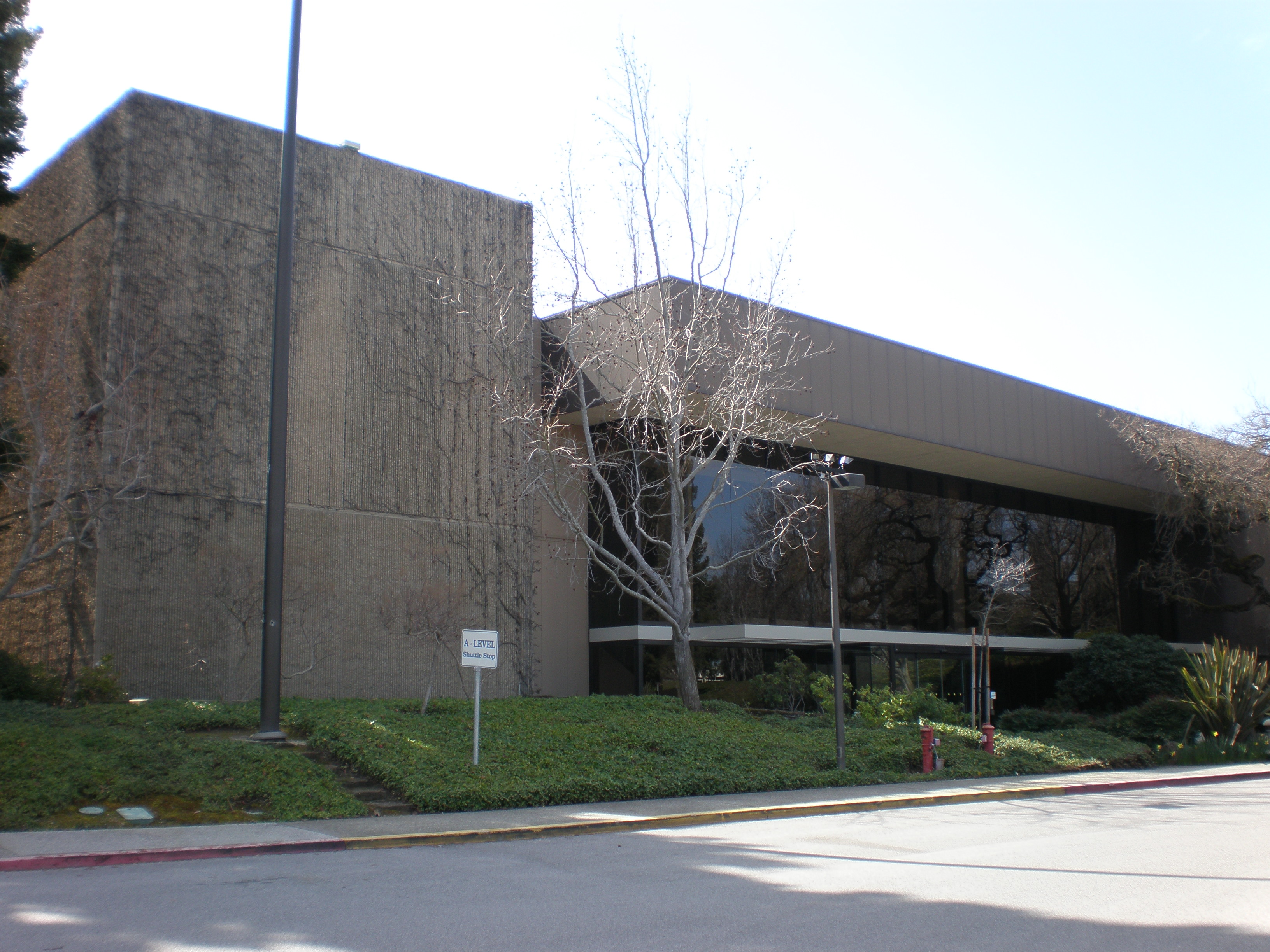 The Hewlett-Packard headquarters campus in Palo Alto, California.